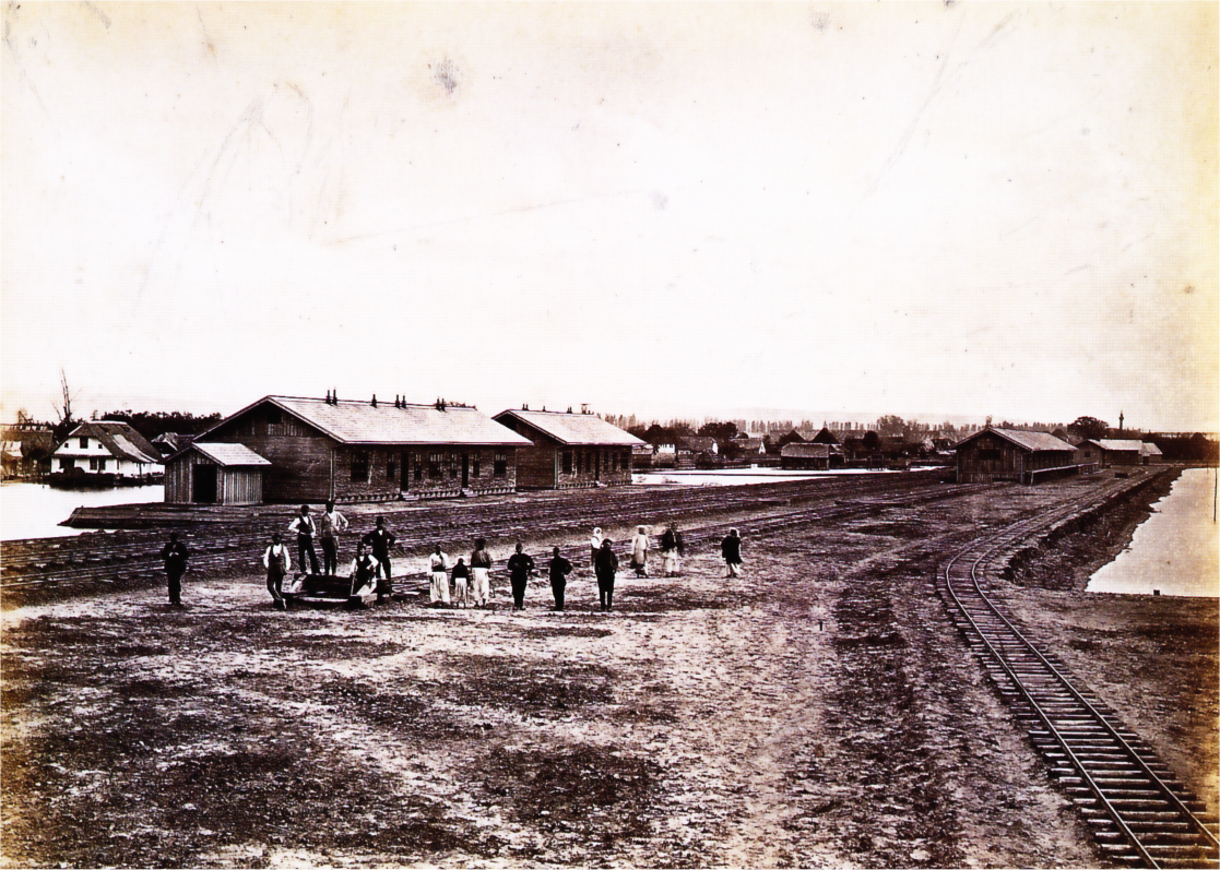 Train station in Sarajevo